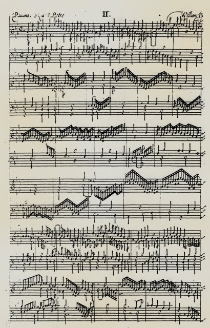 William Byrd : Pavan to Sir William Peter, BK 3 - Parthenia (1611).